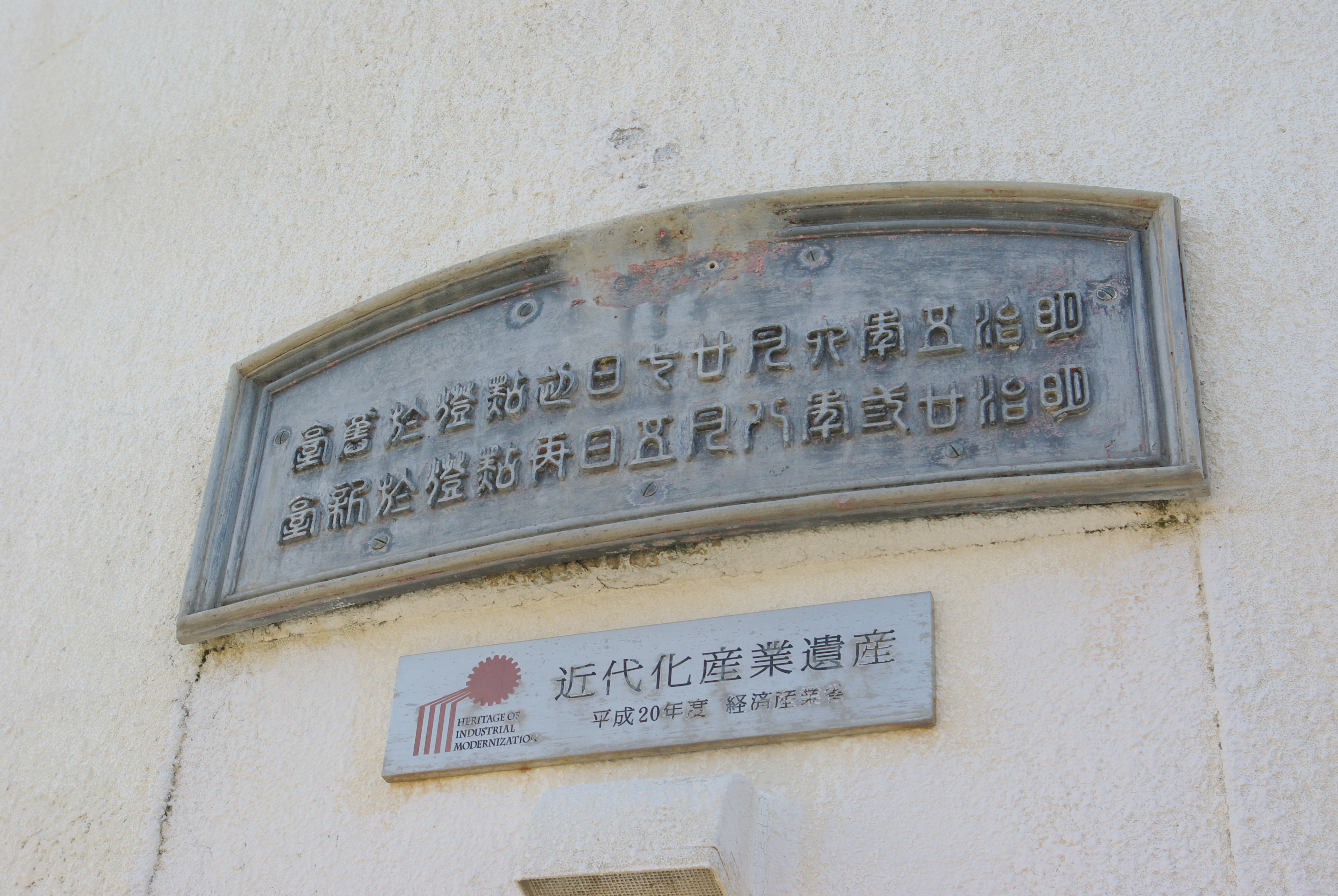 ”明治五年六月廿七日初點燈於舊臺 明治廿参年八月五日再點燈於新臺” "August 1, 1872: First Lid at Former Lighthouse August 5, 1890: Lid Again at New Lighthouse" ”近代化産業遺産 平成20年度 経済産業省” " "